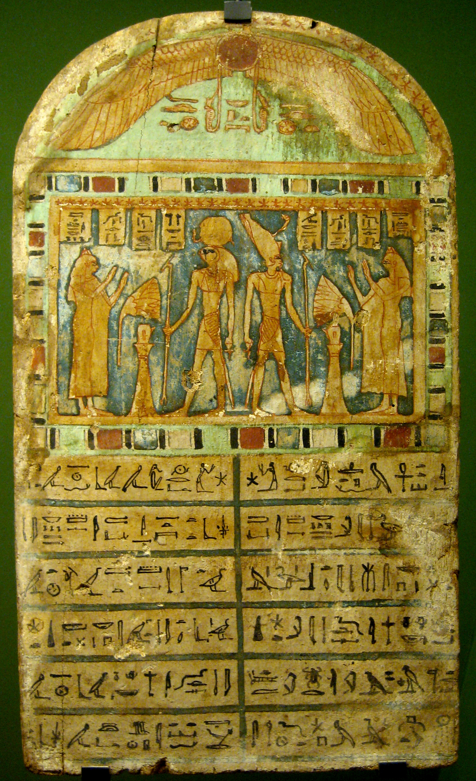 Book of the dead (fragment), ptolemaic period. Luxor, c. 300 BC.